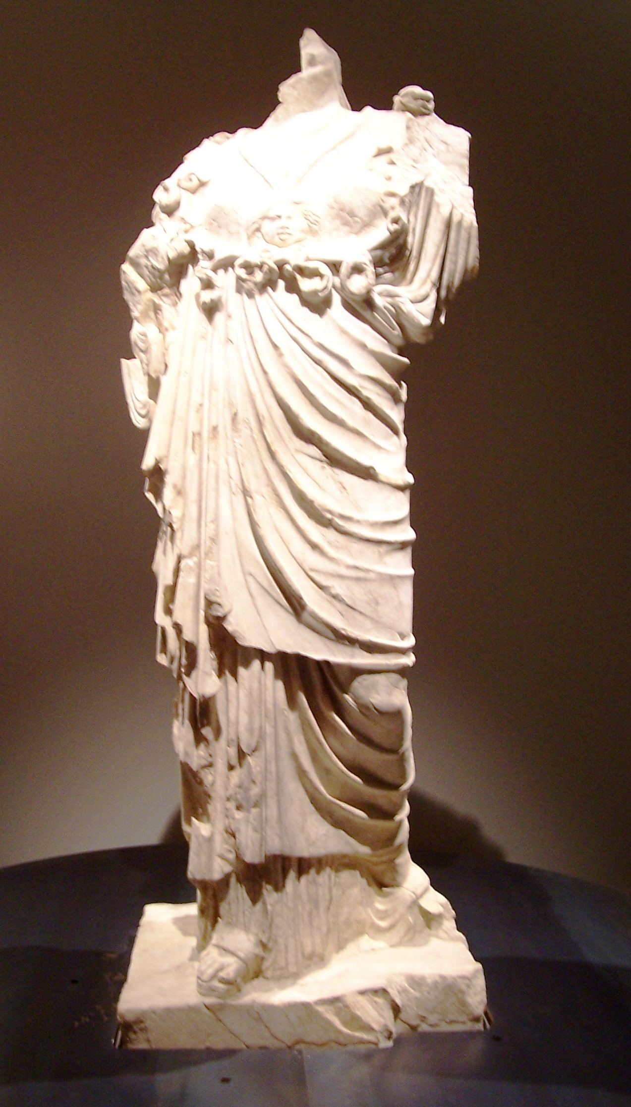 Statue of Menerve (original),Museo archeologico di Valle Camonica, Cividate Camuno, Italia